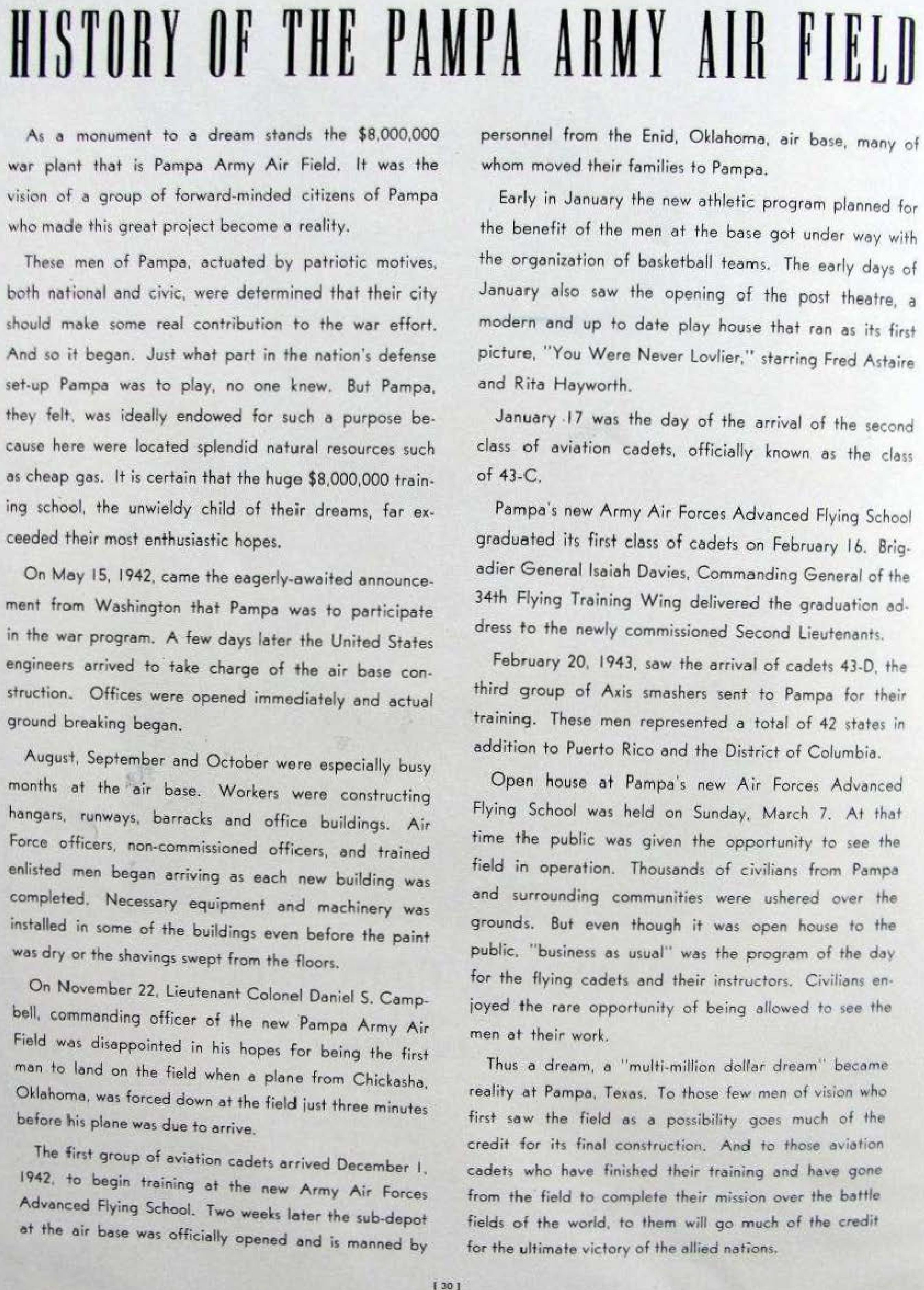 Pampa, Texas Base personnel book for the Pampa Army Air Field, Pampa, Texas.